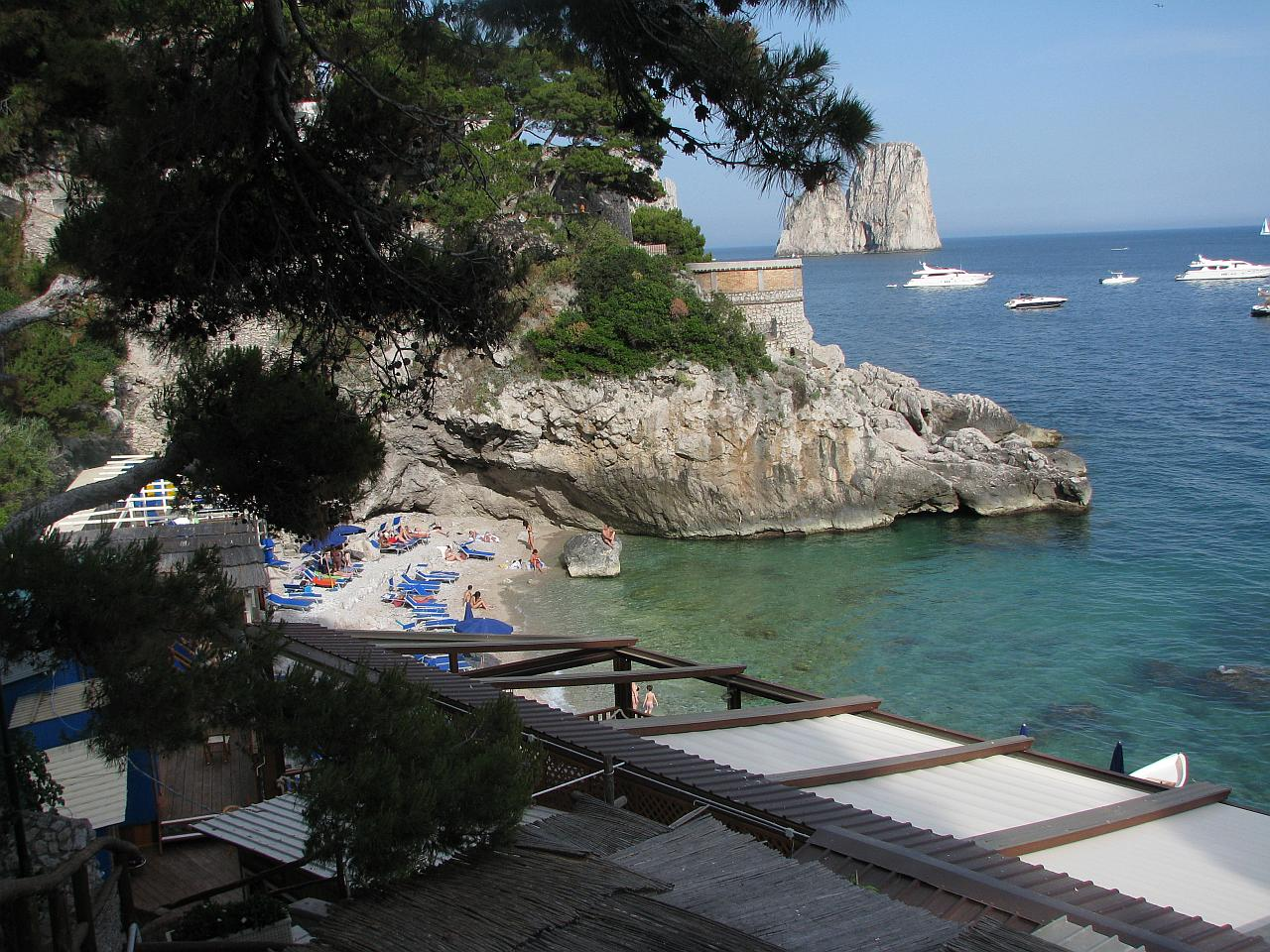 Capri Island, Marina Piccola, Italy